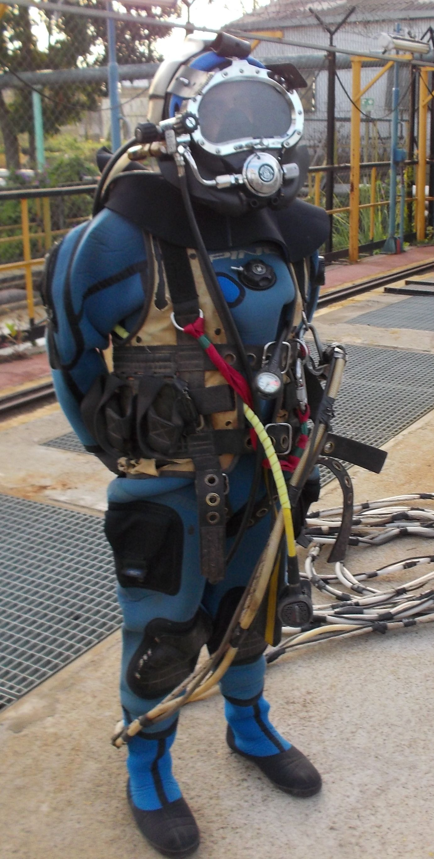 Commercial Diver Fully equiped with Kirby Morgan KMB-28 BandMask